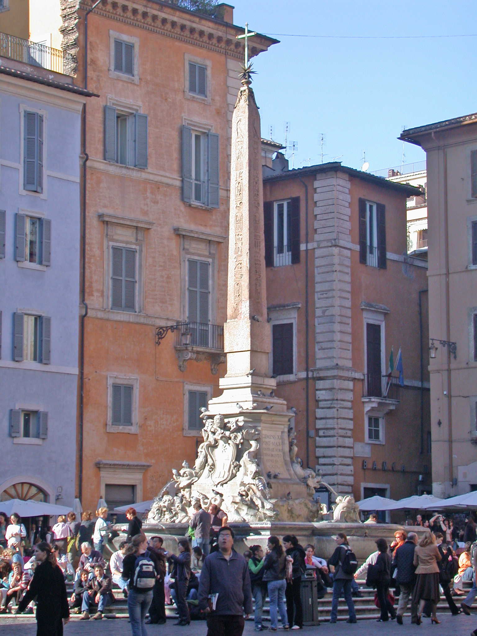 Rome, fountain and obelisk in Rotonda Square, in front of the Pantheon. Personal photo (november 2005) by MM in it.wiki